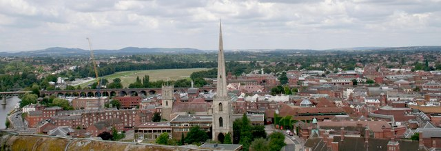 Glover's Needle, Deansway, Worcester Taken from the top of the cathedral tower looking north-north-west. St. Andrew's church has been pulled down except for the perpendicular tower with the impressive spire. Worcester was famed for its glove making industry in the 19th century. Beyond and to the left is the railway viaduct over the river Severn and beyond that Worcester Racecourse.